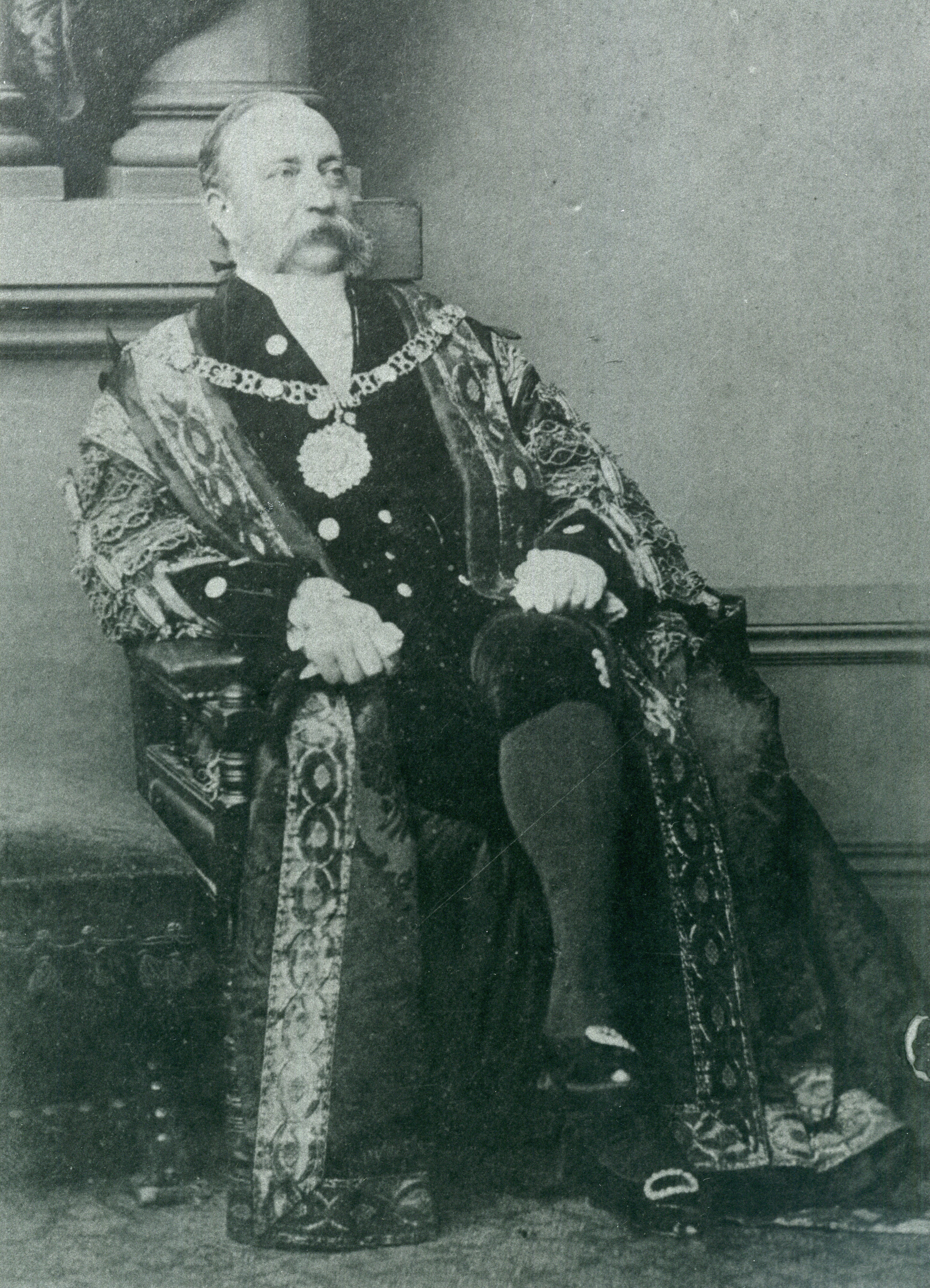 Polydore De Keyser - 1832-1898 - Lord Mayor of London 1887-1888